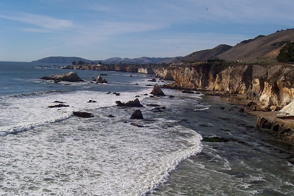 The coast at Pismo Beach.